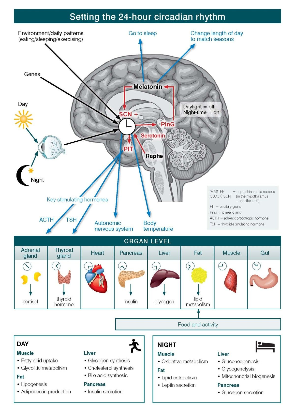 The master circadian clock in the human brain. Circadian systems need to be considered in relation to three differing levels of organization of information and operation. First is the way in which the physical environment communicates (or ‘Inputs’) key information, particularly related to differentiation of night from day, to the internal ‘master’ clock (located in the brain’s suprachiasmatic nucleus (SCN)). Second are the ‘Intrinsic’ brain factors, consisting of the master clock and its linked regulatory systems (notably secretion of melatonin from the pineal gland). These contribute to sleep onset, sleep architecture, sleep-wake cycles and other central nervous system (CNS)-dependent behavioral changes. Third is the way in which the circadian system coordinates all other hormonal, metabolic, immune, thermoregulatory, autonomic nervous and other physiological processes to optimize the relationships between behavior and body functions (that is, the ‘Outputs’). At the cellular level, almost all individual cells and, hence, organ systems have their own intrinsic clocks. As these cellular (for example, fibroblasts, fat cells, muscles) and organ-based (for example, liver, pancreas, gut) clocks run to intrinsically different period lengths, the differing physiological systems need to be aligned in coherent patterns. Fundamentally, the master circadian clock permits the organism to align key behavioral and intrinsic physiological rhythms optimally to the external 24-hour light–dark cycle.